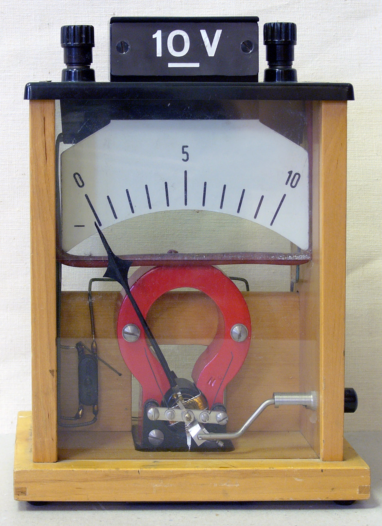 Small demonstration voltmeter used in science education, on display in the Schulhistorische Sammlung (School Historical Museum), Bremerhaven, Germany.